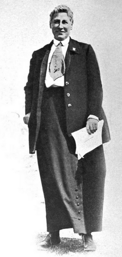 Issette Pearson Miller, from a 1922 publication. A tall white woman with short hair, wearing at tailored skirt suit and holding papers in one hand.